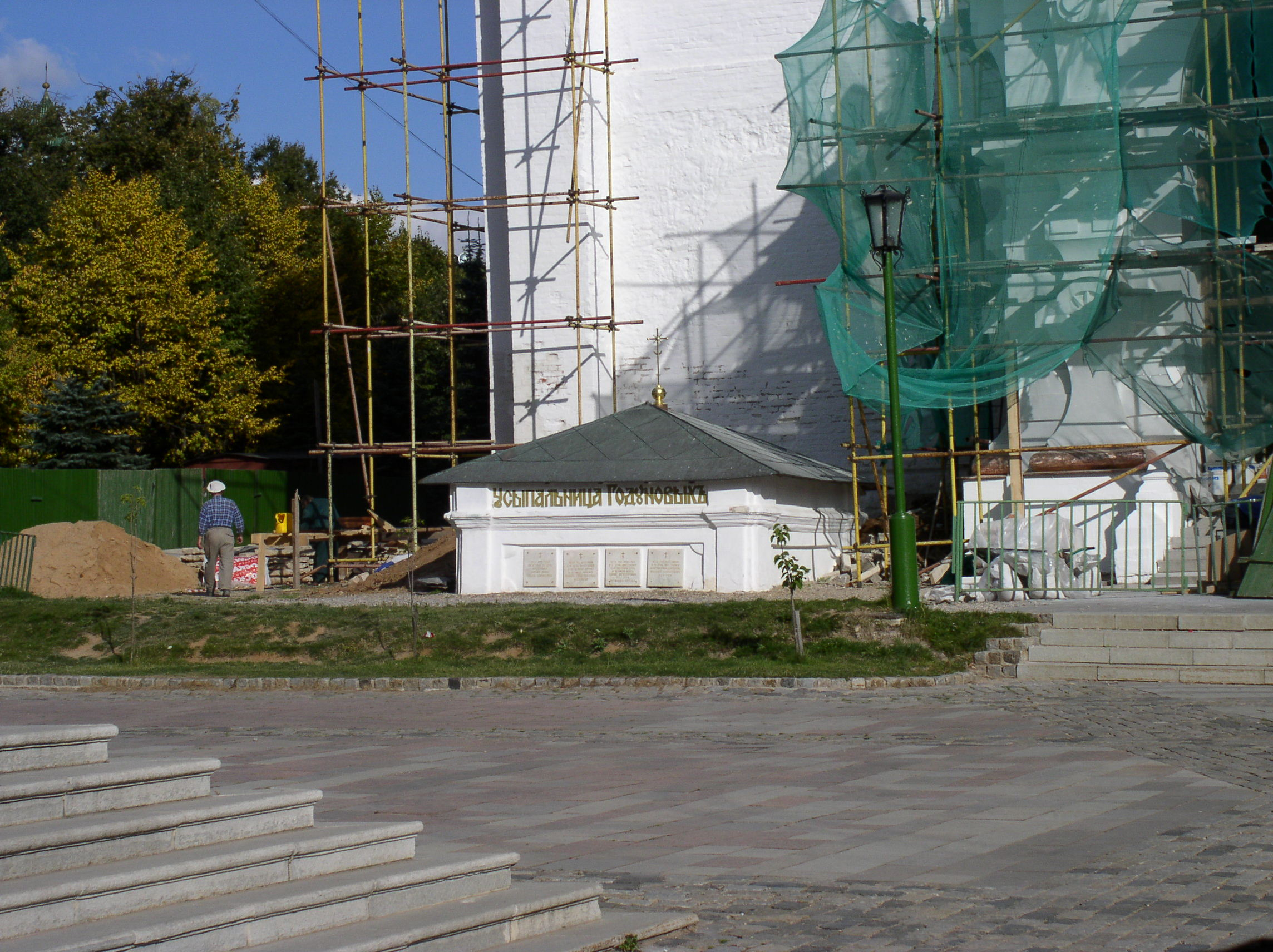 Burial-vault of Godunov family. Troitse-Sergiyeva Lavra. Sergiev Posad, Russia.